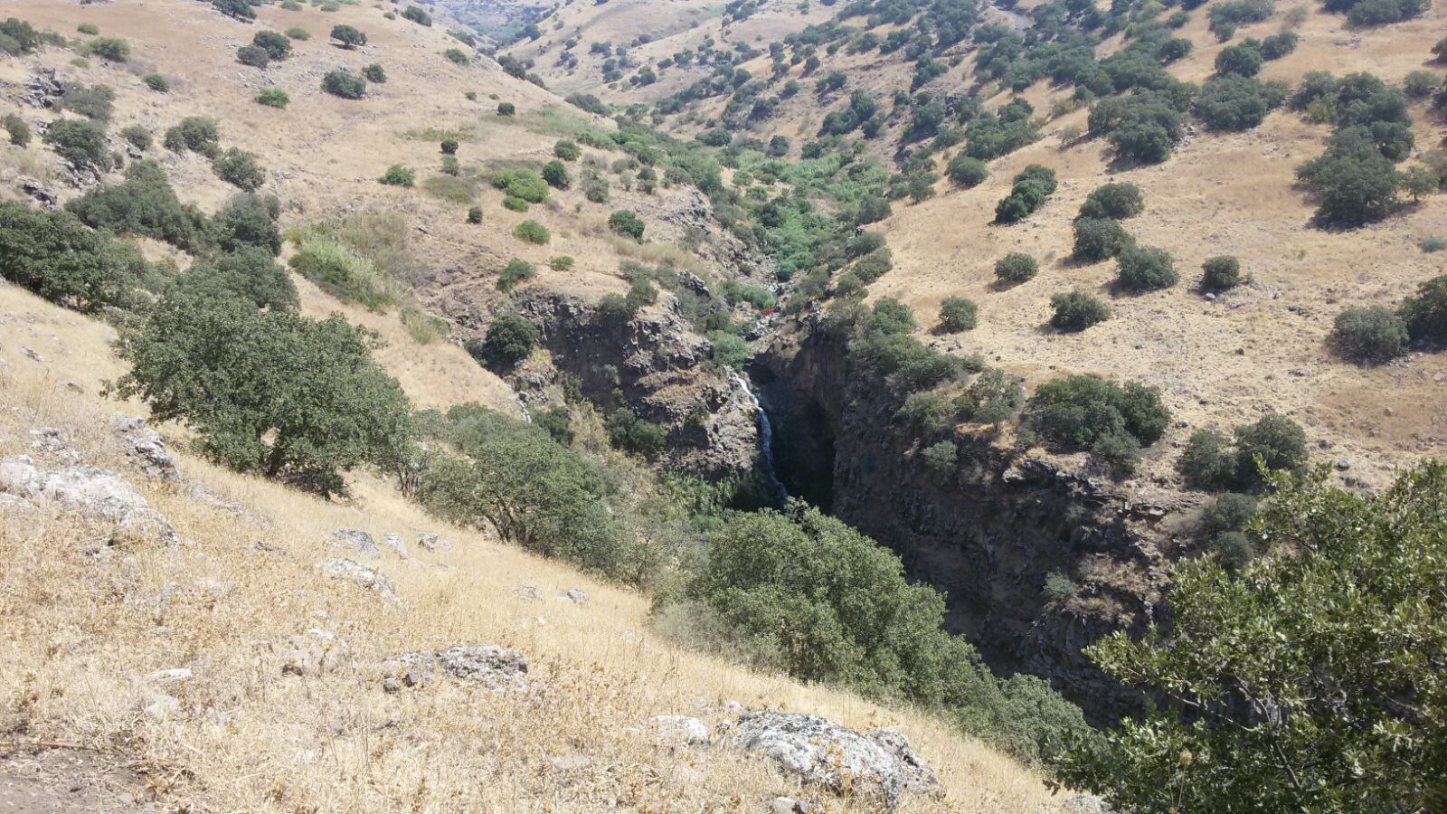 Yahudia River.A view from the top.